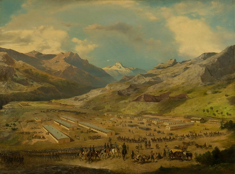 North camp of Austro-Hungarian Army near Mostar, 1878